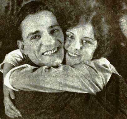 Still from the American film The Final Close-Up (1919) with Francis McDonald and Shirley Mason, used in an ad on page 1099 of the May 24, 1919 Moving Picture Word.